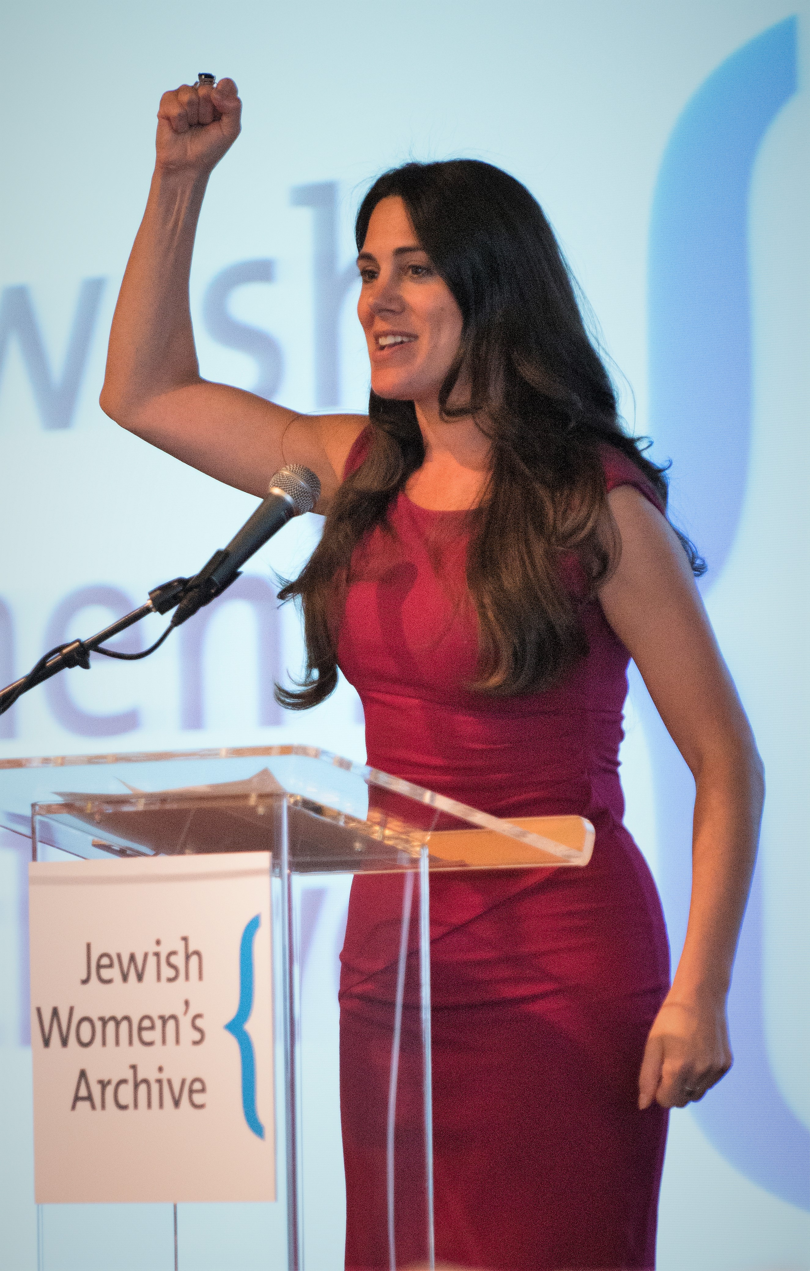 Bel Kaufman, Rachel Cohen Gerrol and Rachel Sklar are honored at Making Trouble/Making History, the Third Annual Jewish Women's Archive luncheon "honoring Jewish women who share our commitment to making trouble and inspiring change" held at the Museum of Jewish Heritage in New York City on March 10, 2013. Words of Welcome are by Letty Cottin Pogrebin, with Songs of Celebration Angela Warnick Buchdahl. The mission of the JWA, a non-profit, is to "uncover, chronicle, and transmit to a broad public the rich history of American Jewish women." Photo by Angela Jimenez